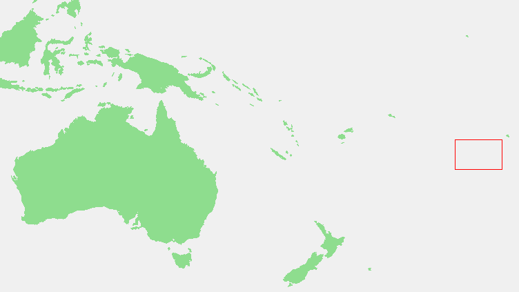 Austral islands overview.PNG